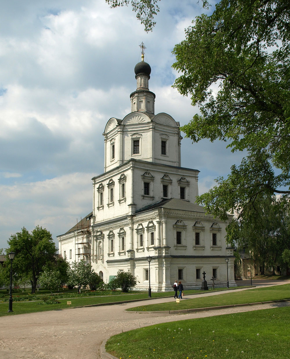 Andronikov Monastery, Moscow. Church of Archangel Michael, 1691, with refectory built in 1504-1506